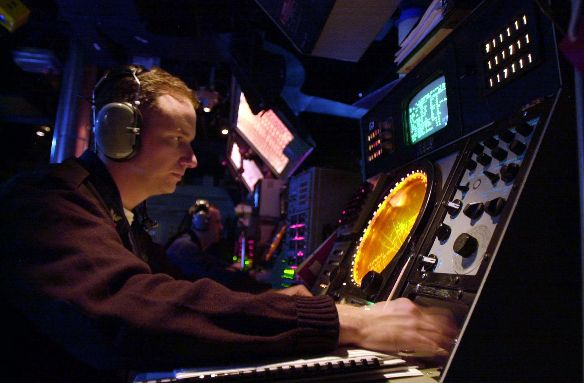 020118-N-6520M-004 At sea aboard USS Lake Champlain (CG 57) Jan. 18, 2002 -- An Operations Specialist 2nd Class monitors air radar contacts in the Combat Information Center. Lake Champlain is conducting missions in support of Operation Enduring Freedom. U.S. Navy Photo by Photographer’s Mate 1st Class Greg Messier (RELEASED)